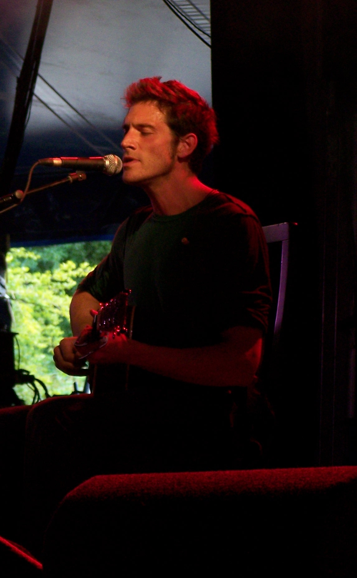 Ben Taylor in concert, Midlands Music Festival, Belvedere House, Mullingar, Ireland on the 30th July 2007.